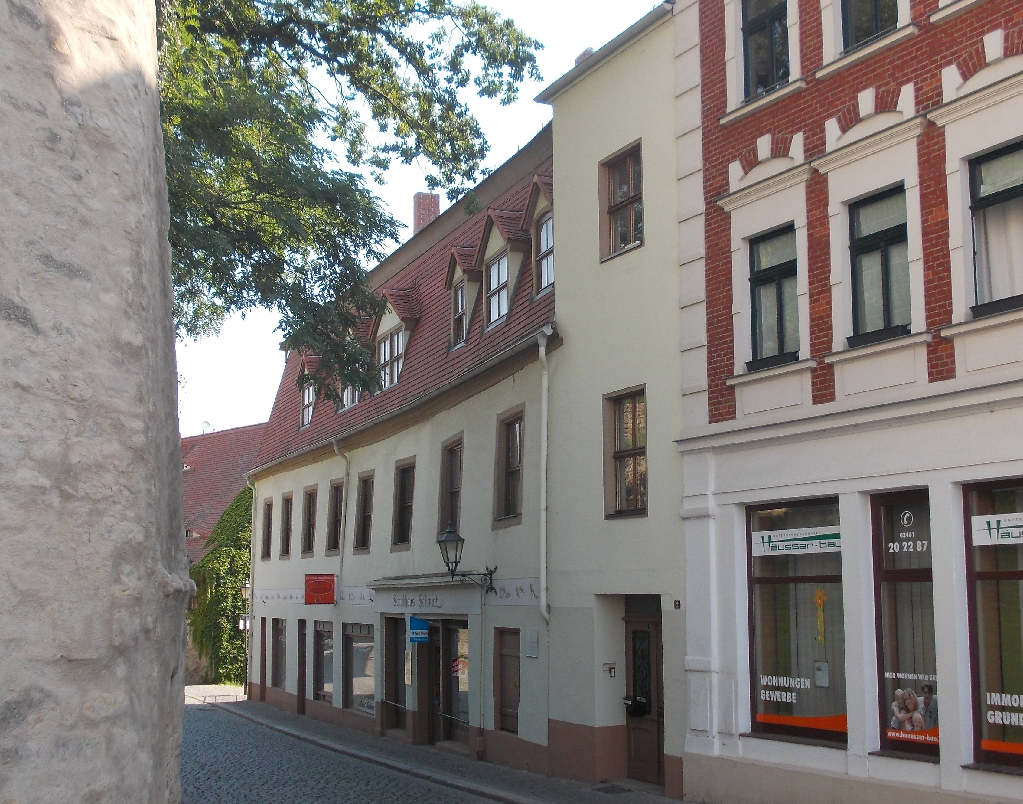 No. 2, Am Neumarkttor in Merseburg (district: Saalekreis, Saxony-Anhalt)